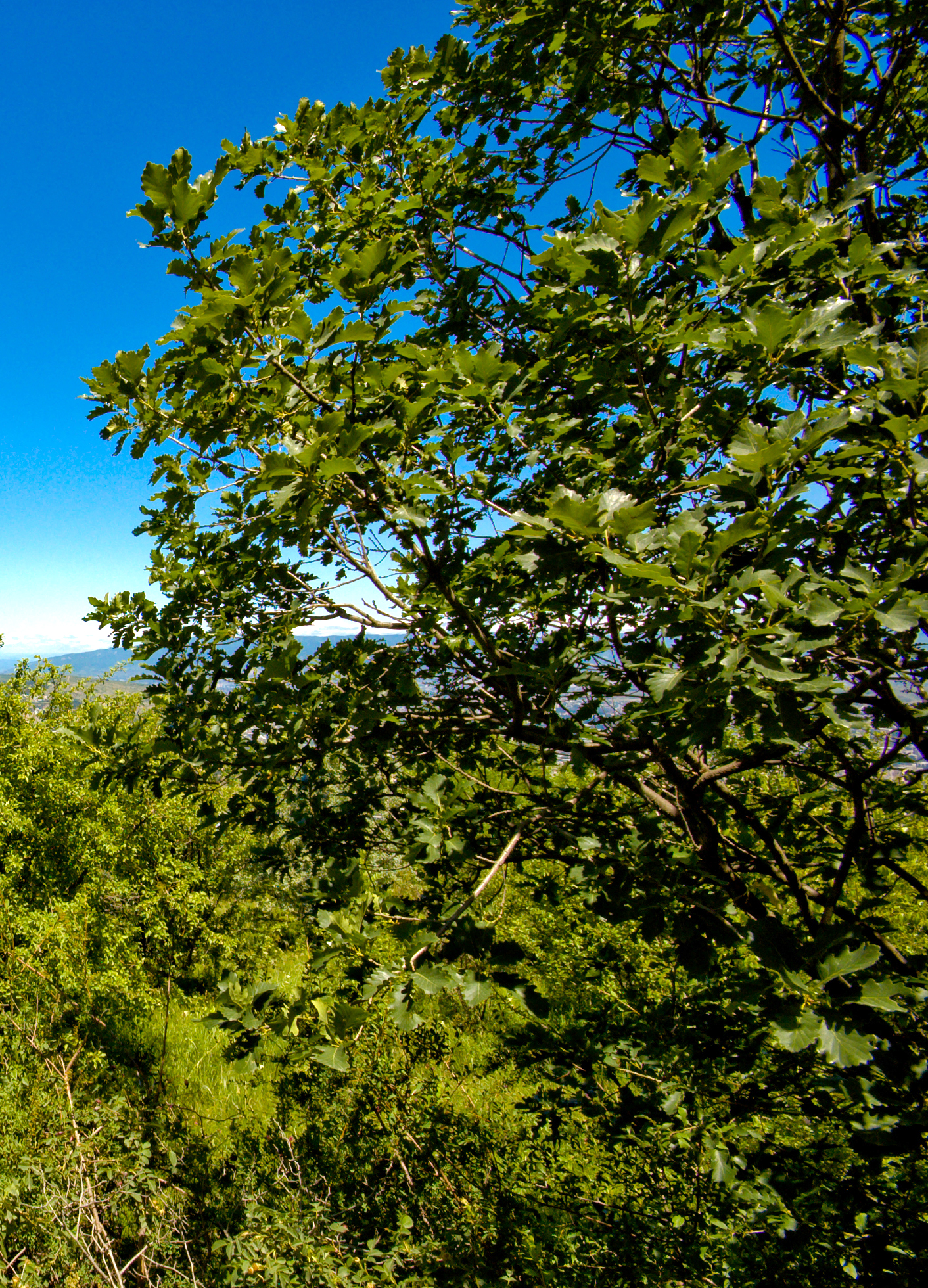 Quercus macranthera foliage, near Svanetian Tower, Tbilisi, Georgia.